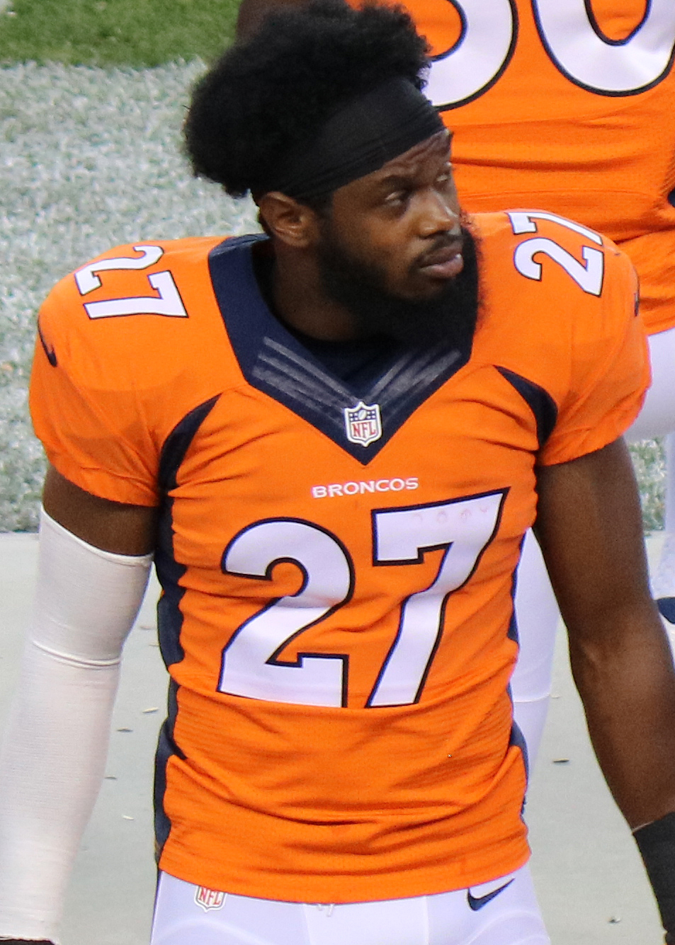 Brandian Ross, a player on the National Football League.